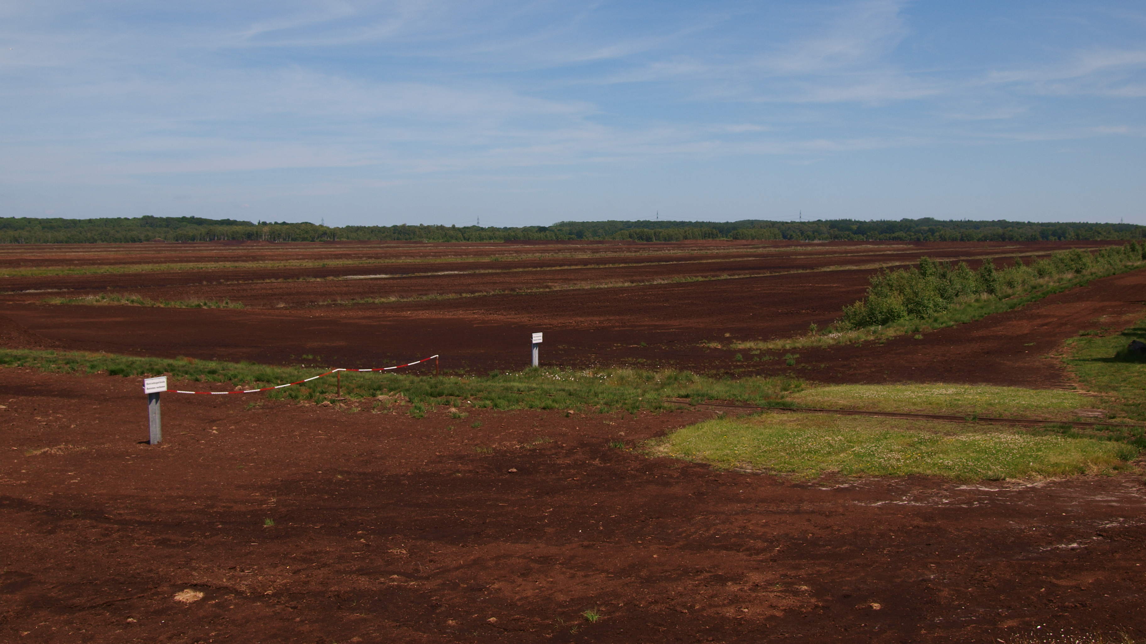 The peat cutting area of Himmelmoor, a former bog near Quickborn, Schleswig-Holstein, Germany, photographed in direction north east.